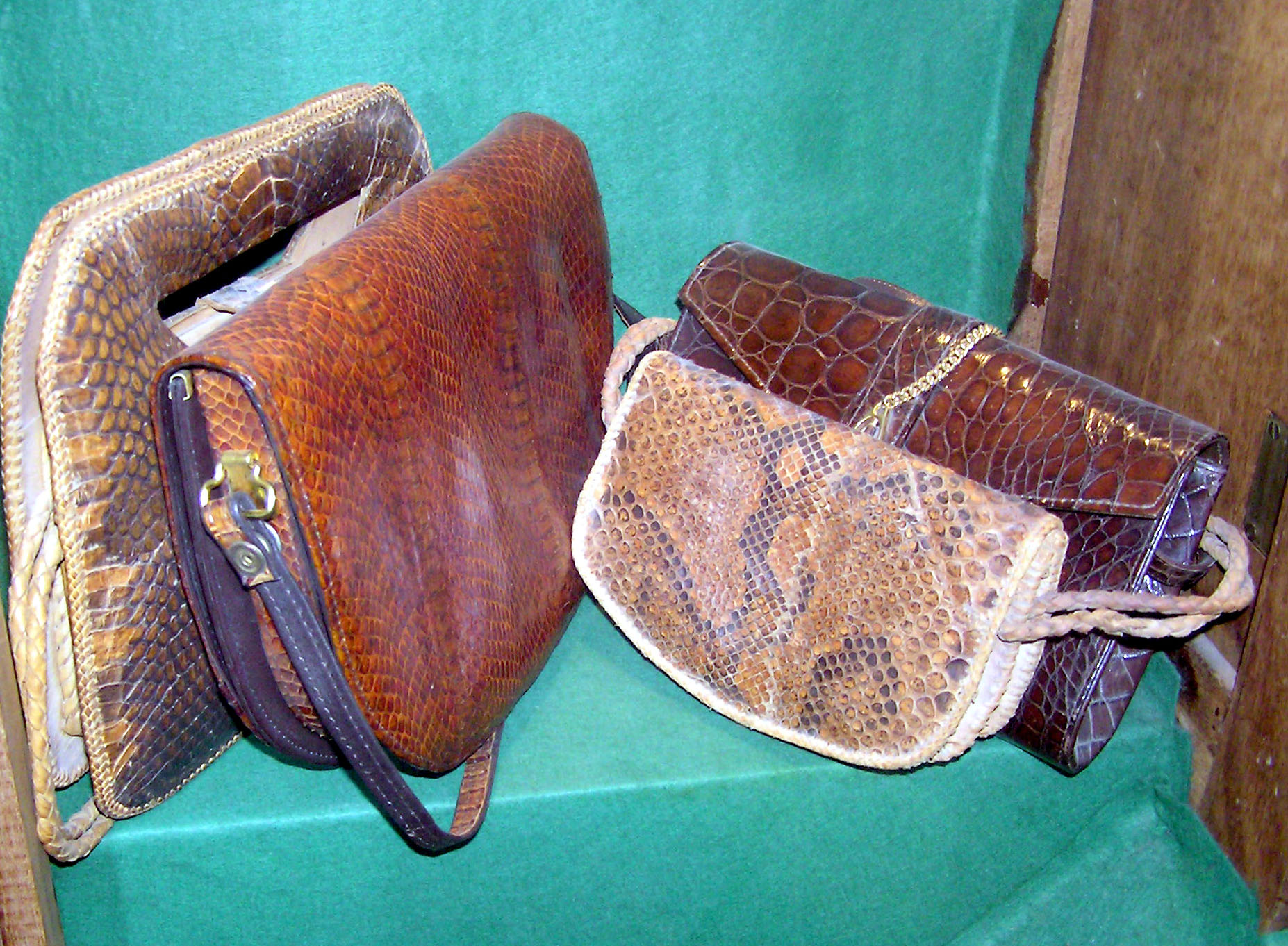 Crocodile skin handbag in a conservation exhibit at Bristol Zoo, Bristol, England. Photographed by Adrian Pingstone in December 2005 and released to the public domain.